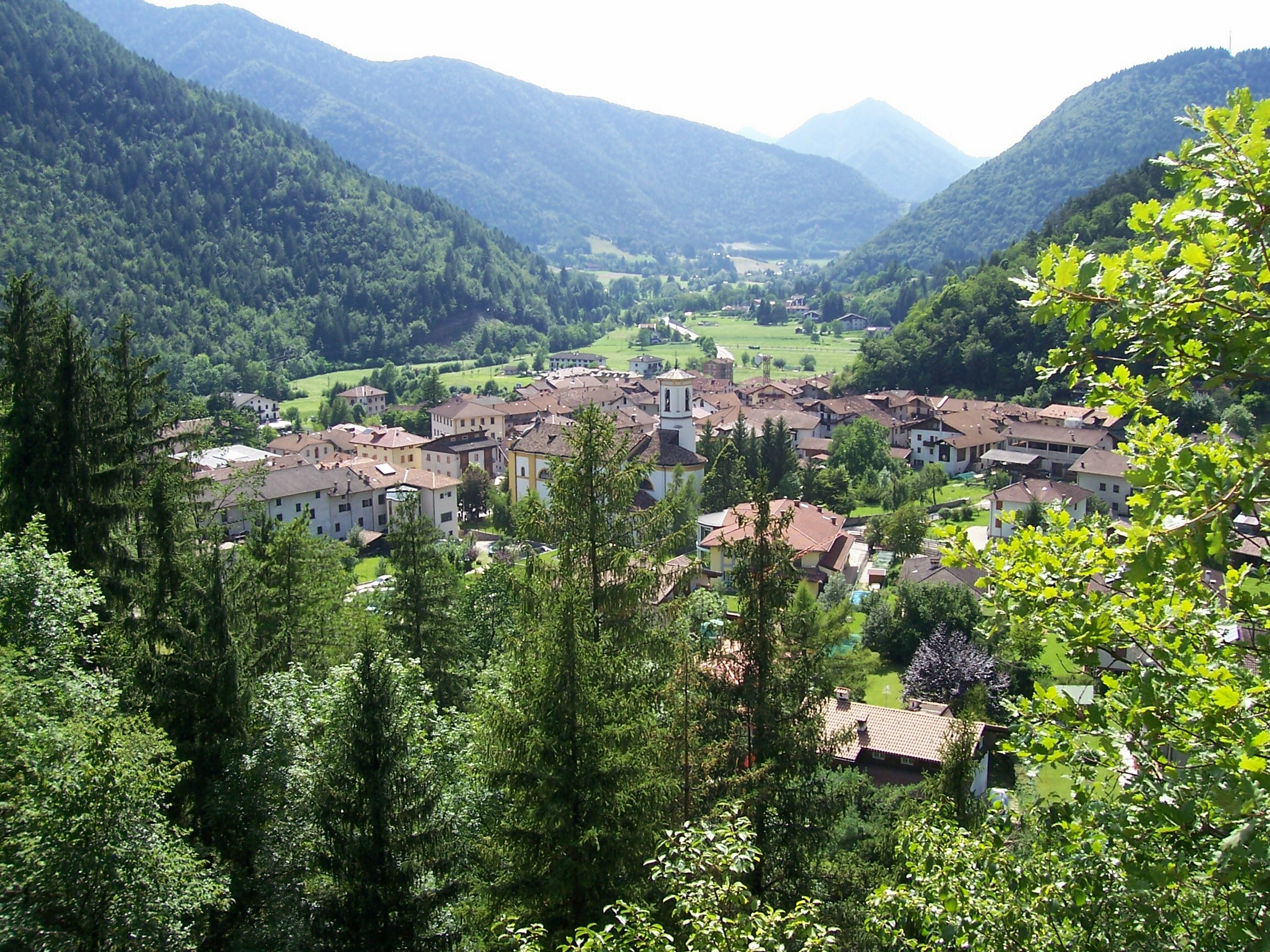 Municipality Bezzecca in Ledro Valley (Valle di Ledro), North-Eastern View